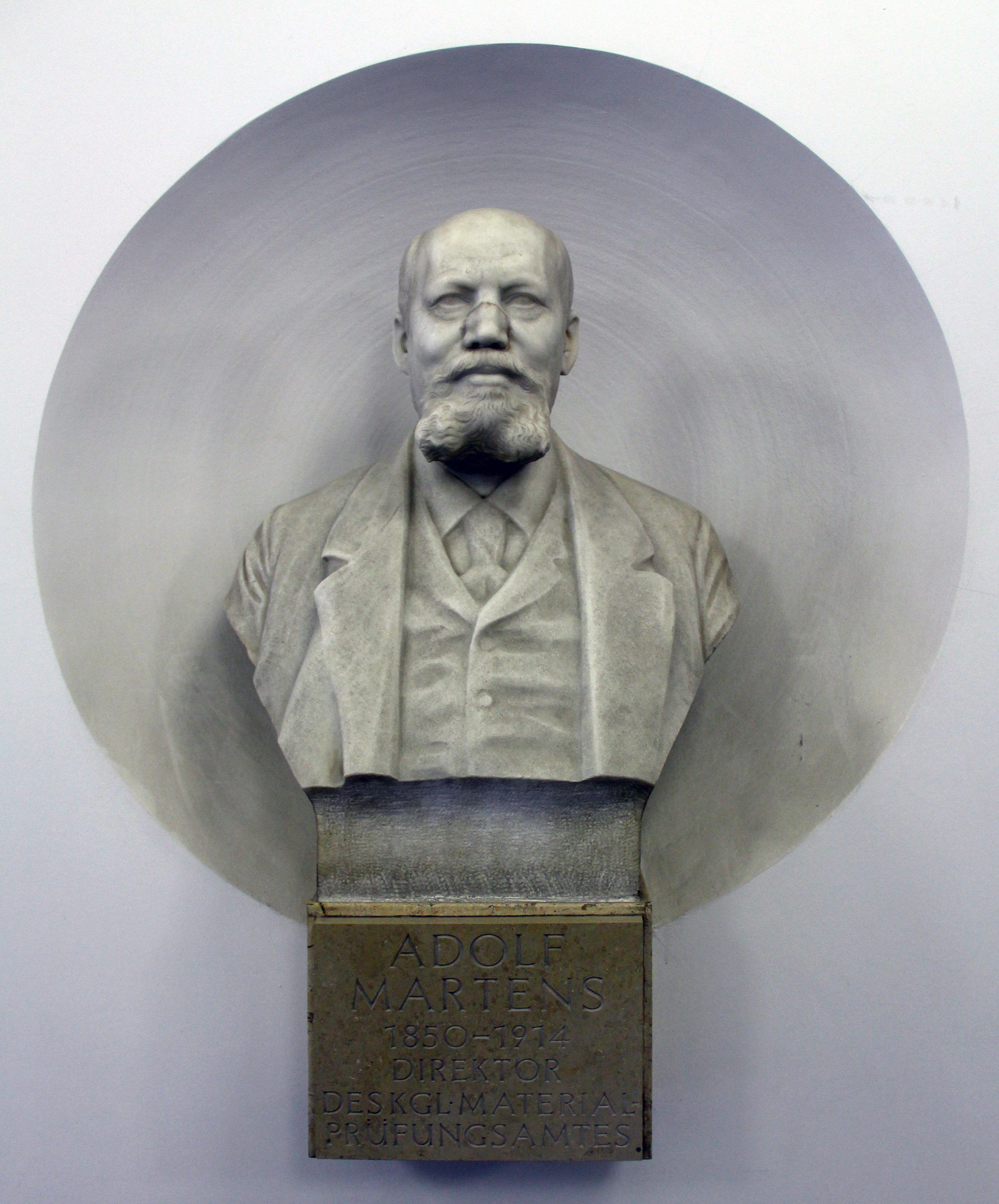 Bust, Adolf Martens, Unter den Eichen 87, Berlin-Lichterfelde, Germany